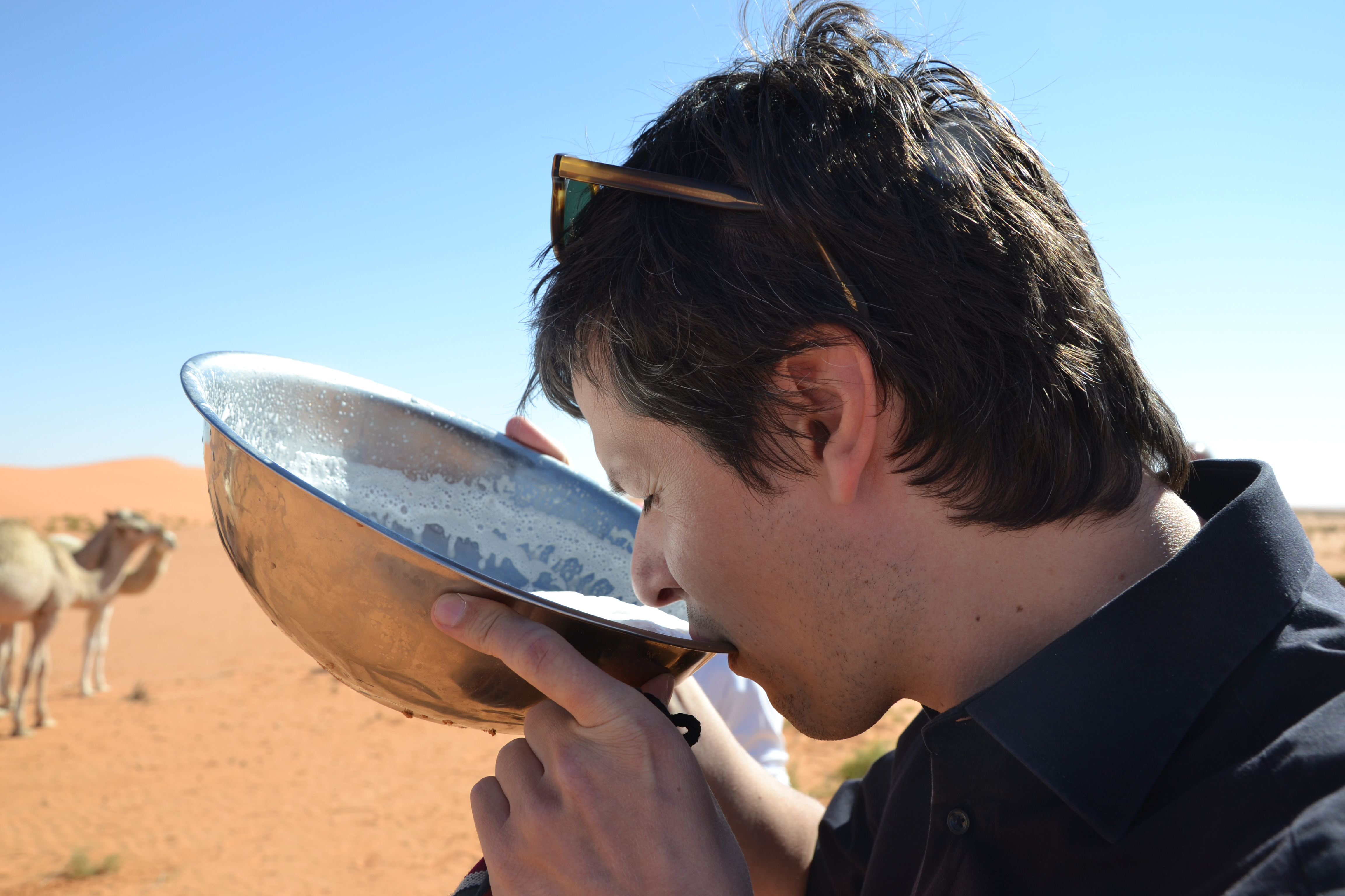 Man drinking camel milk from a bowl in Saudi Arabia